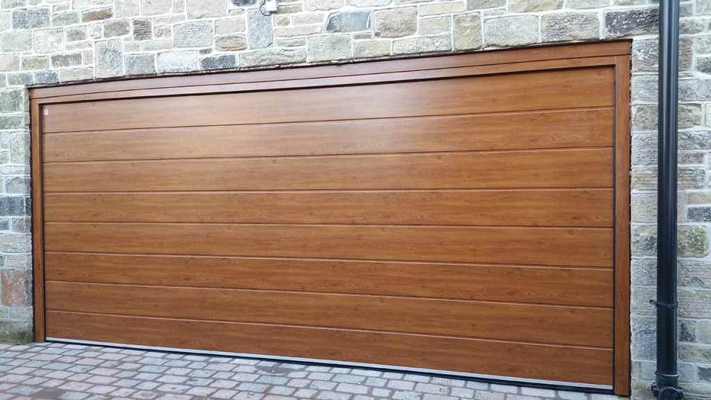 A custom built double frame and garage door system with wireless remote control operation